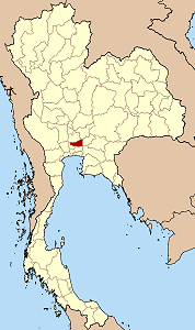 Map of Thailand highlighting Pathum Thani province